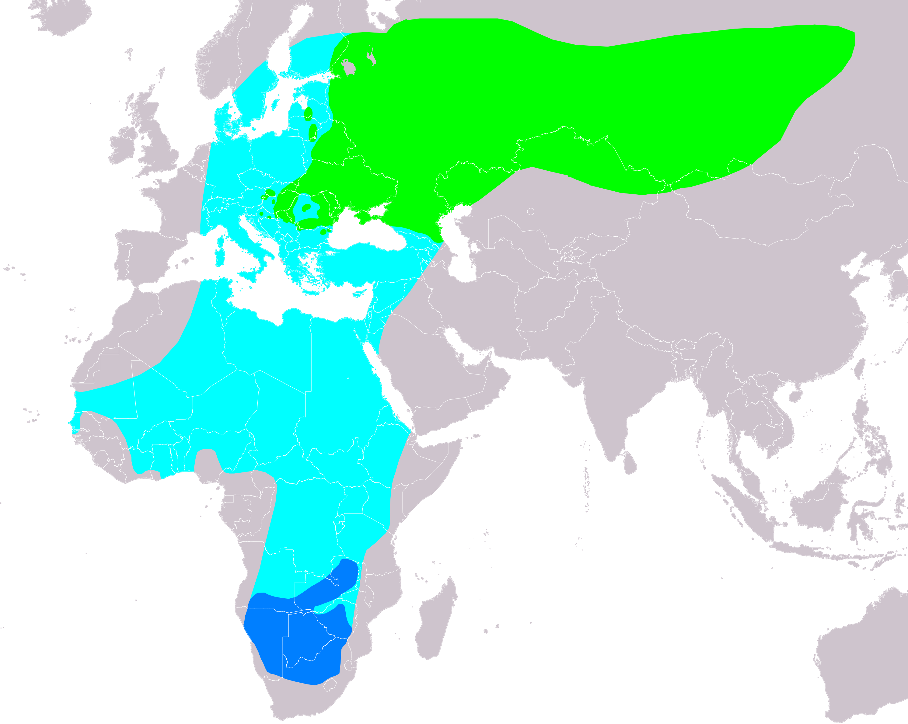 Distribution map of red-footed falcon (Falco vespertinus) according to IUCN version 2019-2 ; key: Legend: Extant, breeding (#00FF00), Extant, passage (#00FFFF), Extant, non-breeding (#007FFF)